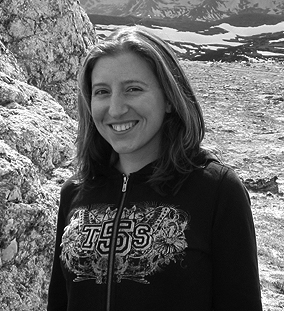 Maia Weinstock